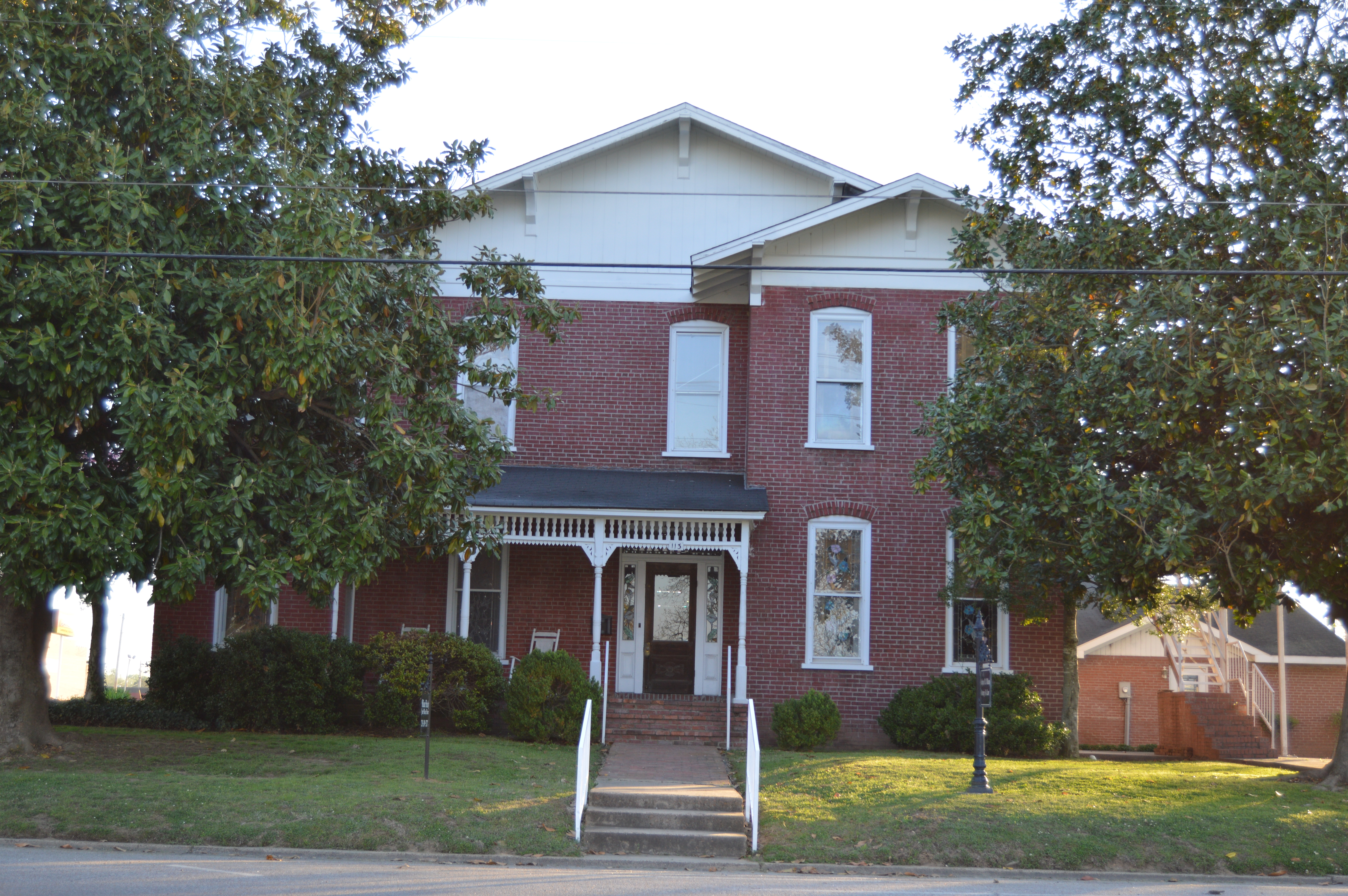 Front of the Thompsie Edwards House (now a law office), located at 113 S. Main Street in Lexington, Tennessee, United States. Built in 1894, it is listed on the National Register of Historic Places.